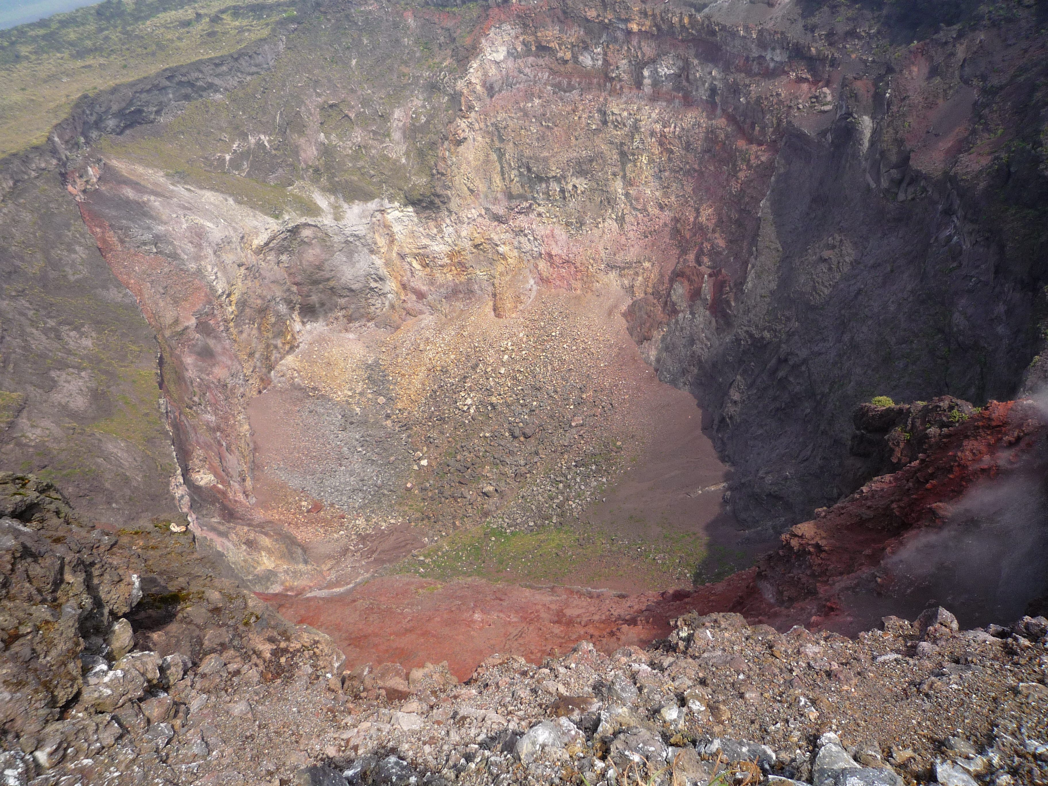 三原山の山頂火口。Crater of Mount Mihara.